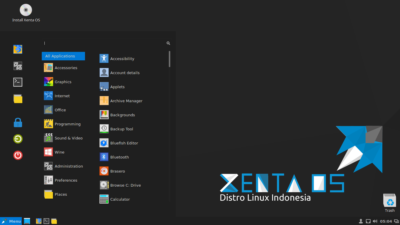 Xenta OS 1.3.2 Cinnamon amd64